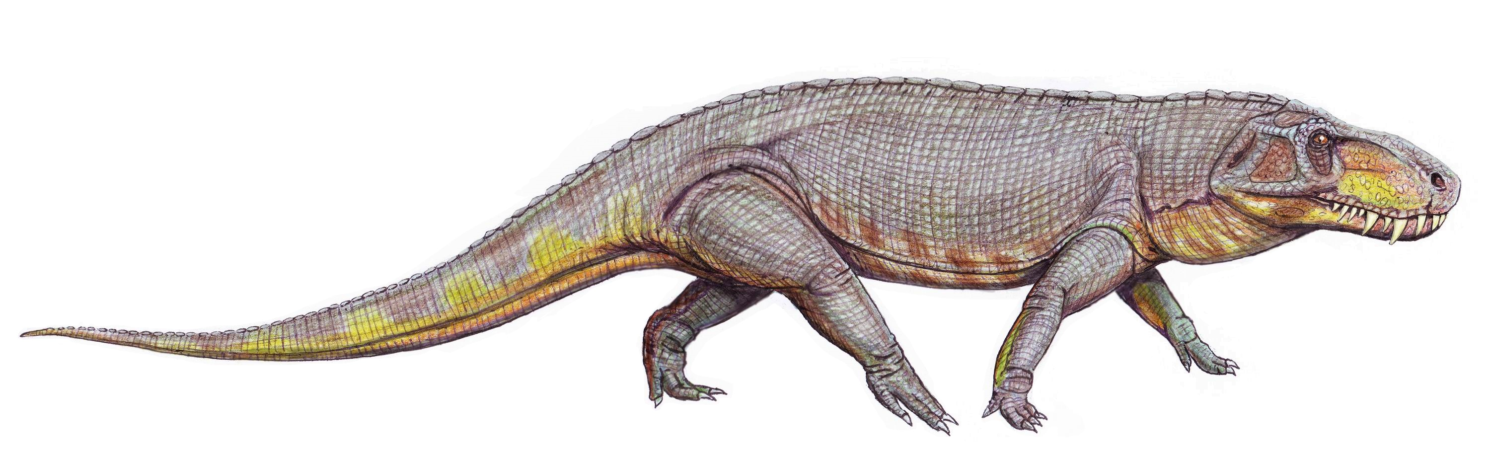 Prestosuchus chiniquensis - rauisuchian from Late Middle Triassic of Brasil.